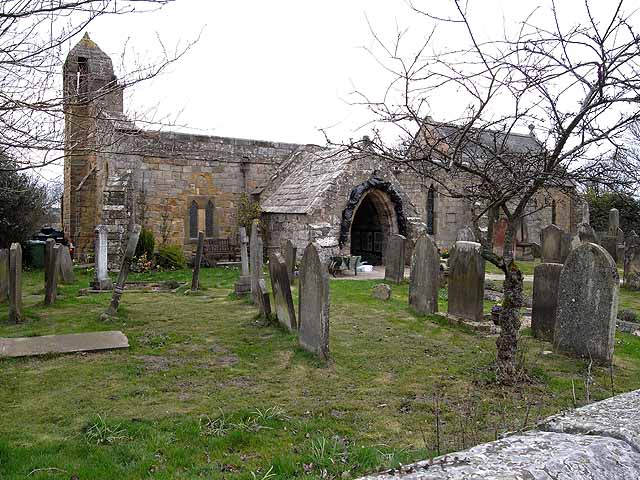 Church of St Michael and All Angels, Felton. This beautiful old church, fragments of which date back to the 12th century, stands on the western edge of the village of Felton. The bell-cote is an unusual feature.